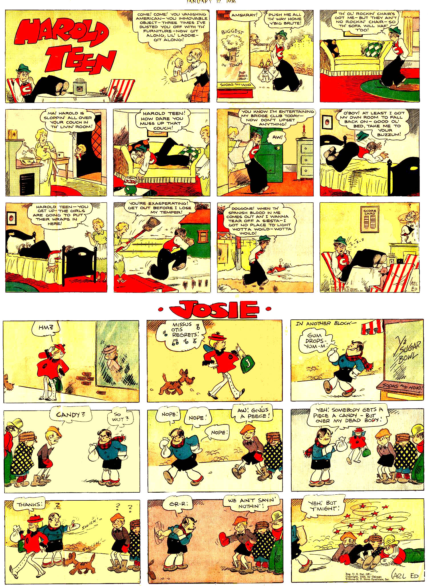 Comic strips Harold Teen and Josie. A renewal search was done in both artwork and contributions to publications for the years 1953 and 1964. There were no listings for Carl Ed, Chicago Tribune or NY Times in any variation in these categories. There's no evidence that copyright continues to be claimed on either.